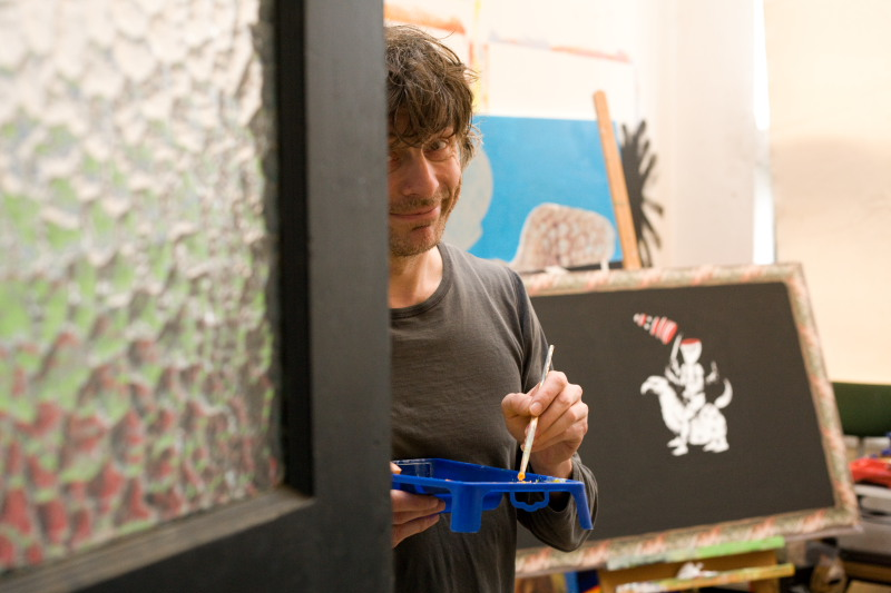 Kamagurka working on the Kamalmanak